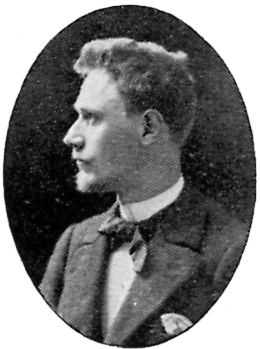 Image scanned from the book "Svenskt Porträttgalleri XX - Arkitekter, Bildhuggare, Målare m.fl. " ("Swedish Portrait Gallery XX - Architects, Sculptors, Painters, ") published 1901